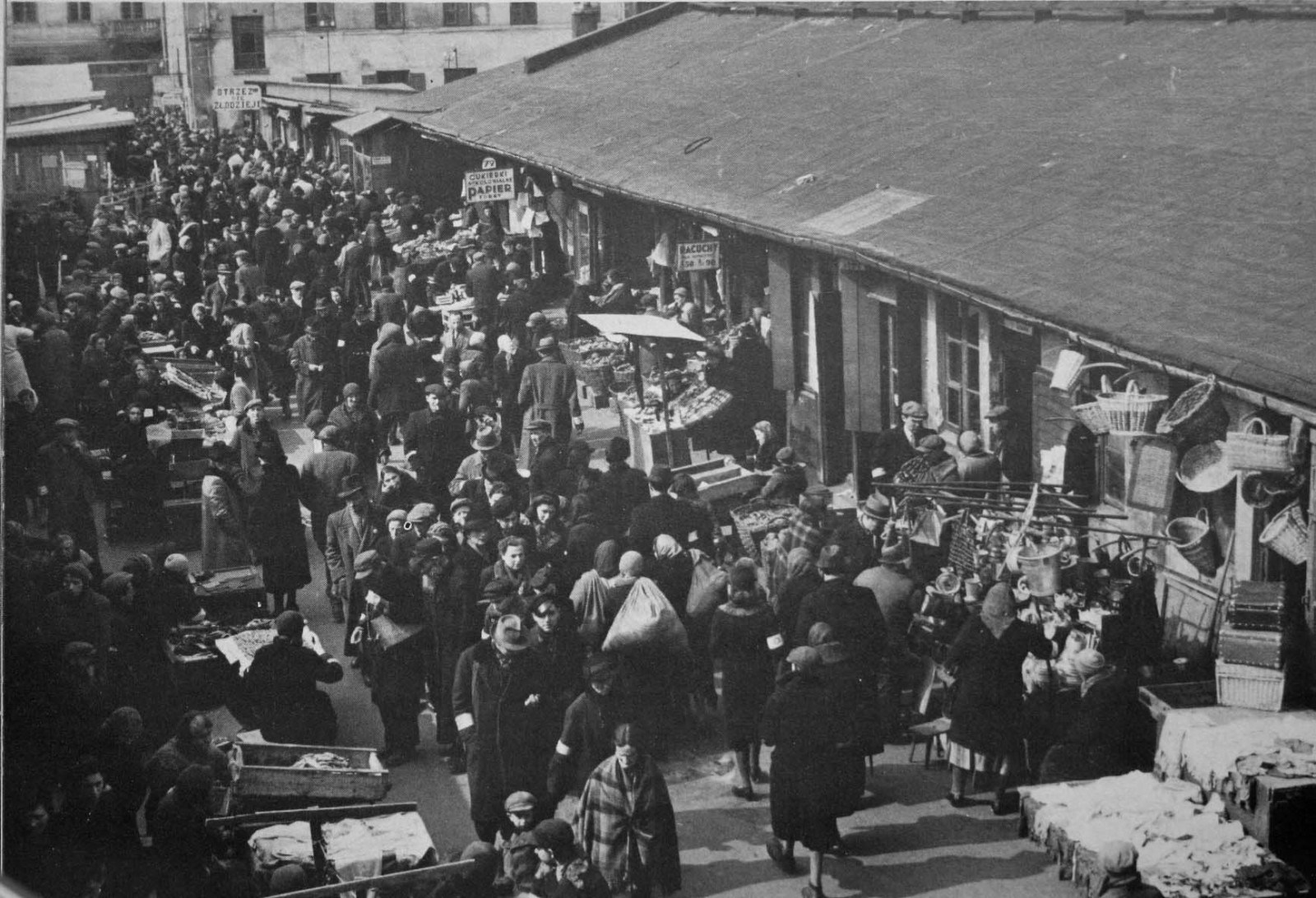 Warsaw Ghetto: Market between buildings at Leszno 42 and Nowolipie 35. View on the market from the back of the townhouse at Leszno 42.